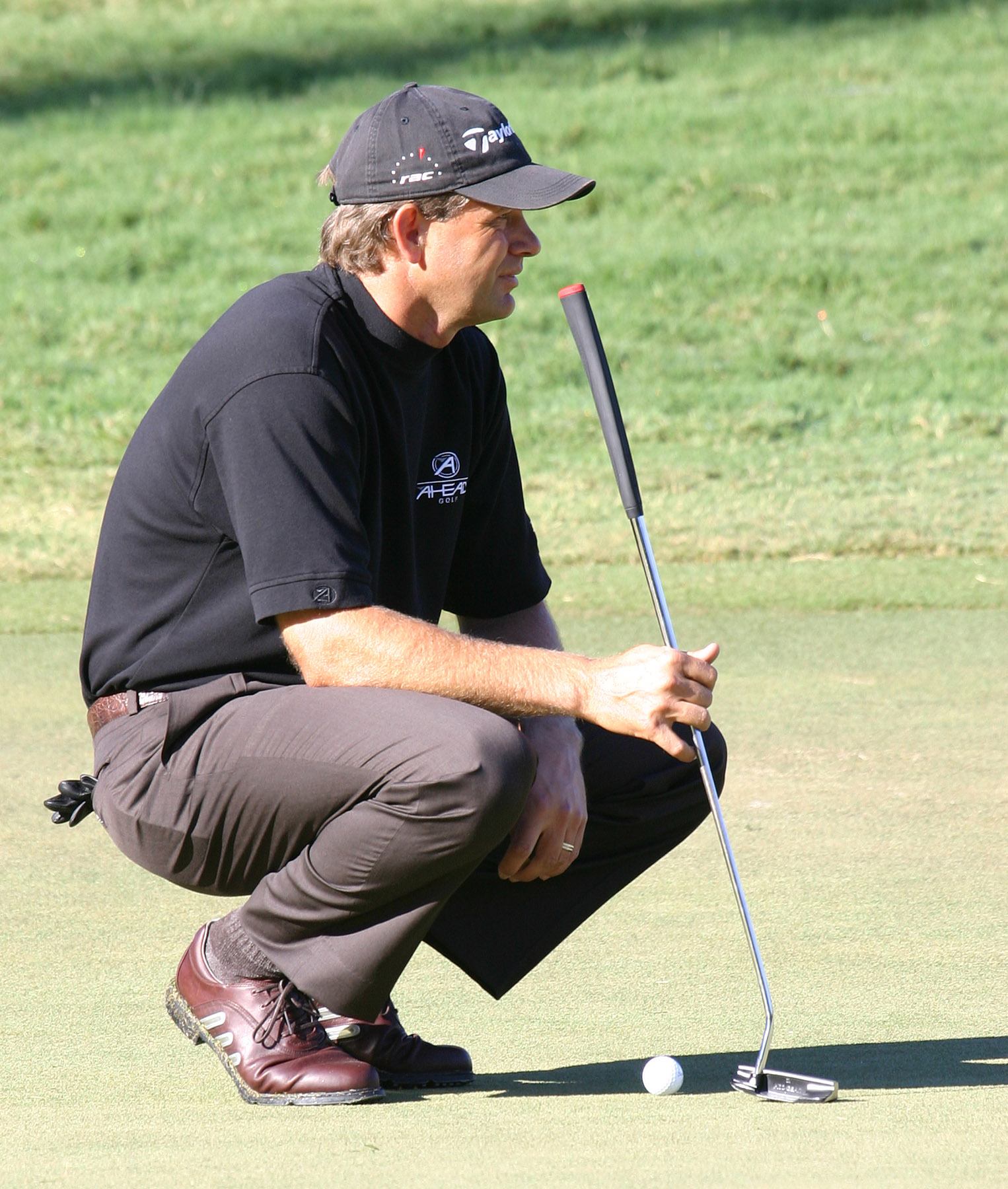 Retief Goosen at the 2006 Chrysler Championship PGA tournament, Palm Harbor, Florida, practice round.